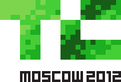 TechCrunch Moscow 2012 conference logo